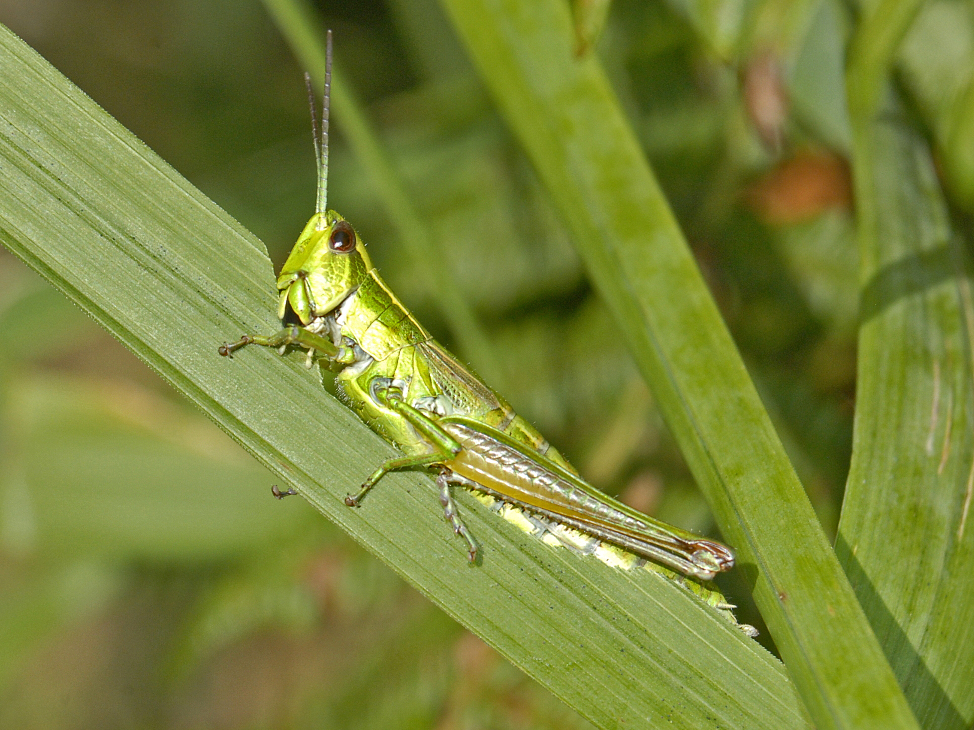 Euthystira brachyptera. Piani di Praglia, Genova, Italy